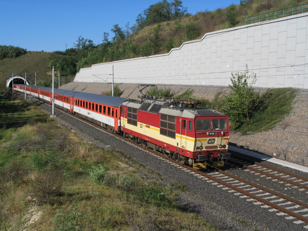 EC 370 (hauled by ČD 371 002) to Berlin and Aarhus is leaving the new high speed track tunnel near Mlčechvosty.